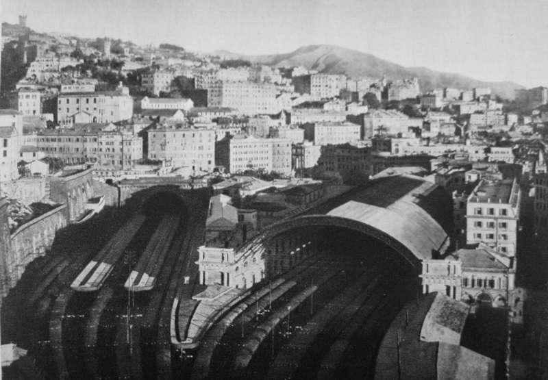 To the right station offices and the arched overall roof of the original terminus; to the left first set of through platforms, with tunnel mouth in far end.